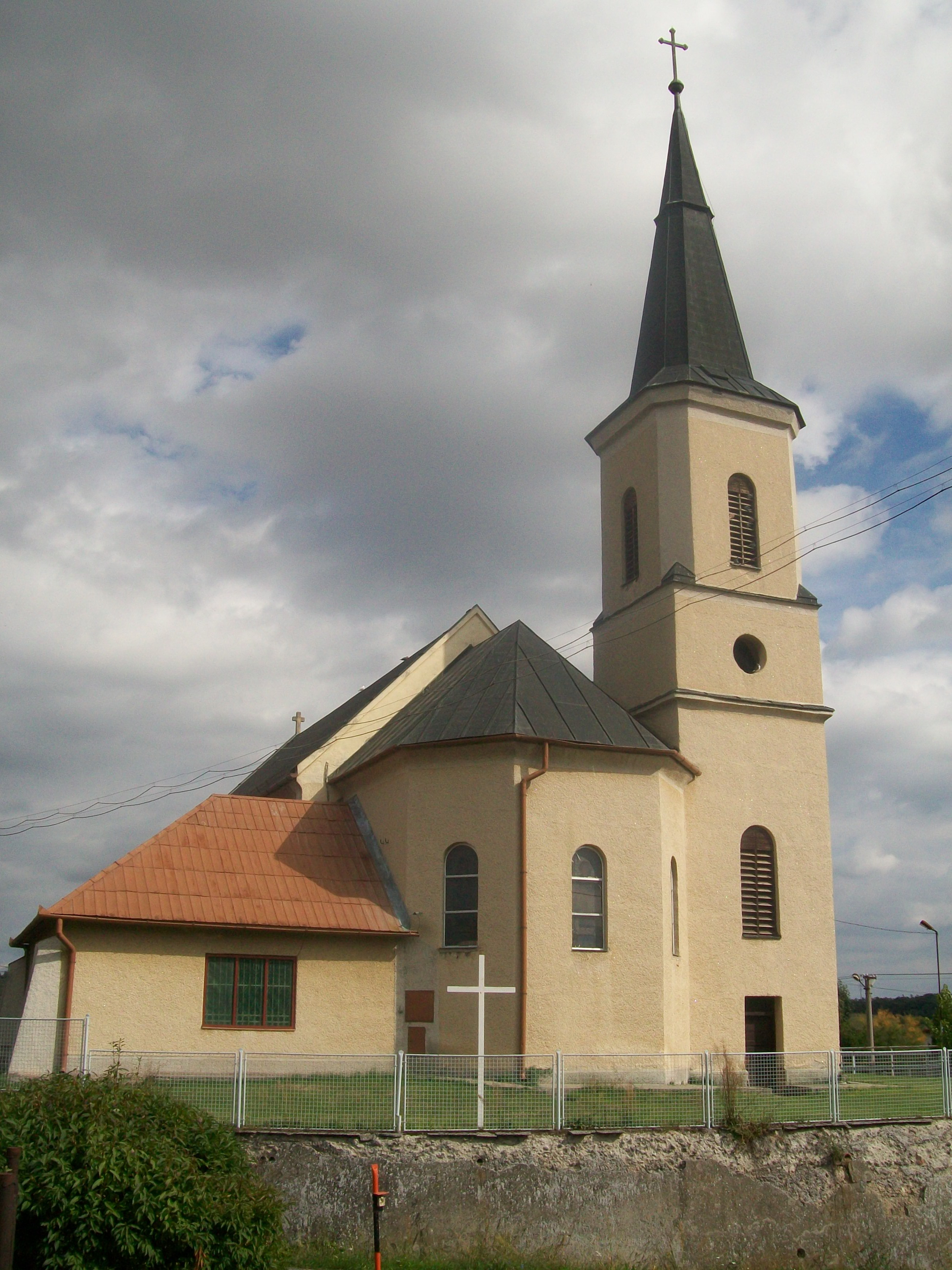 The Roman Catholic Church of St. Martin from year 1930.